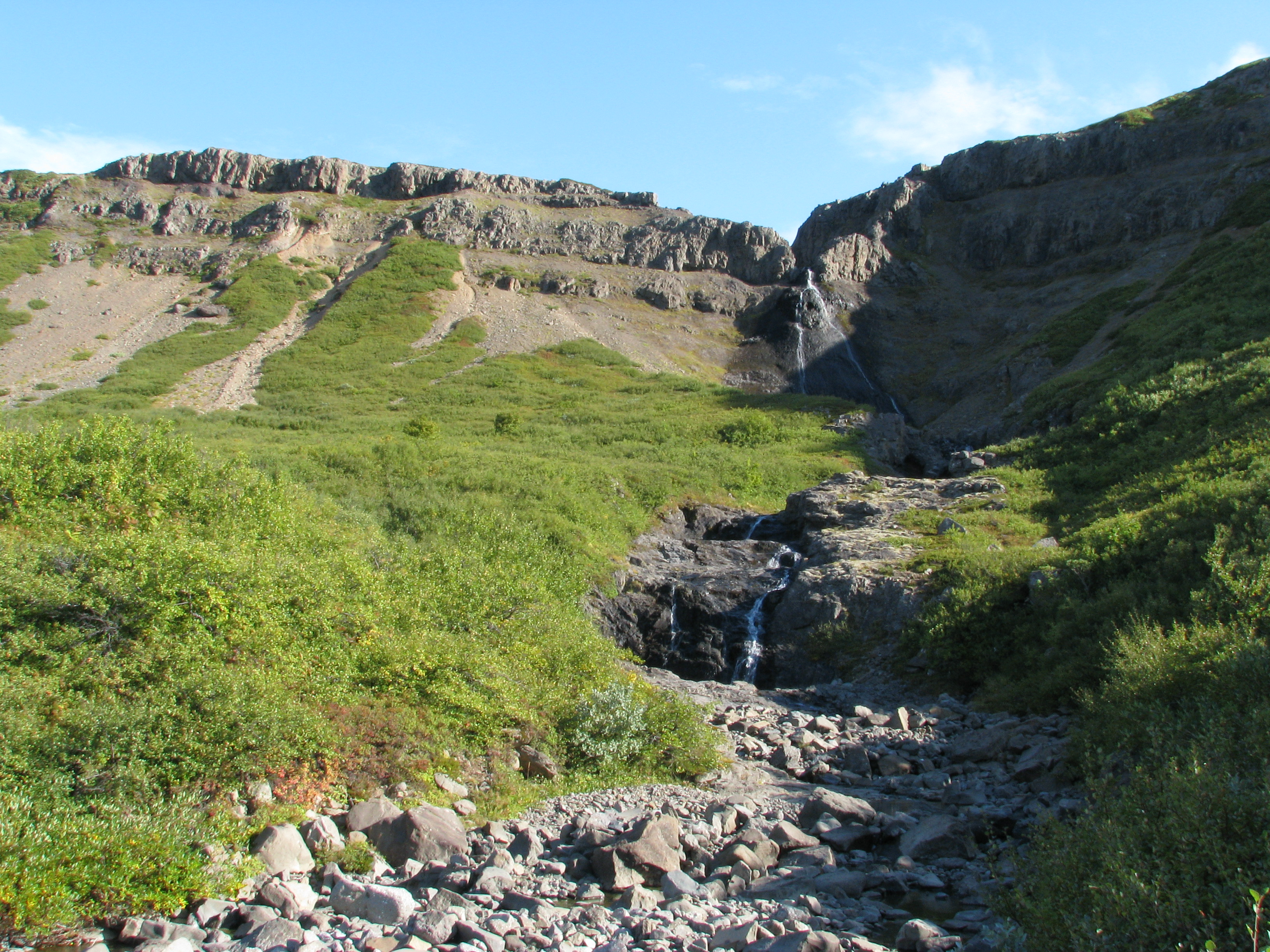 Skiptárfoss, a waterfall of Iceland.